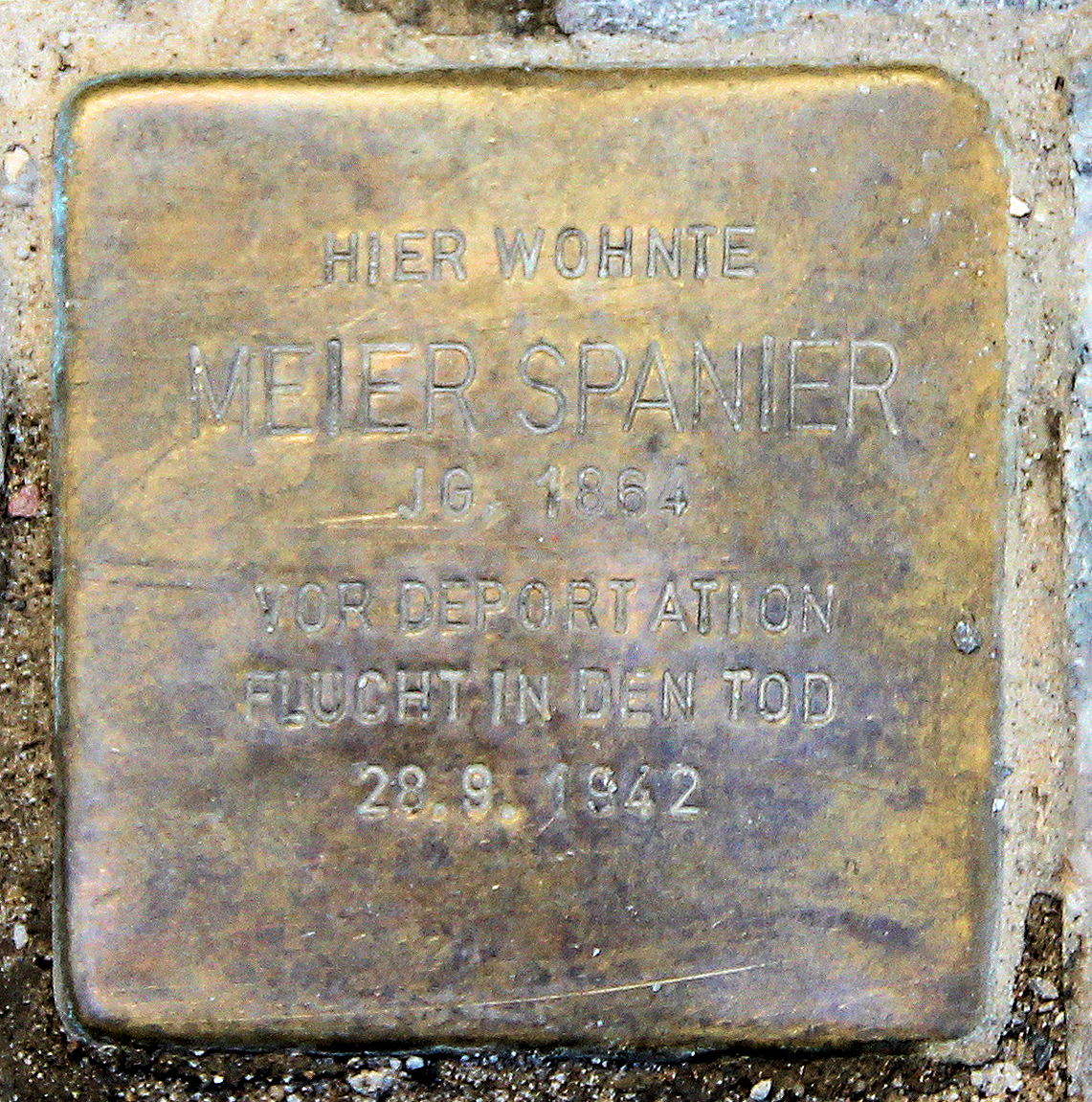 "stumbling block", Meier Spanier, Jenaer Straße 20, Berlin-Wilmersdorf, Germany Koordinate:52°29′22″N 13°20′9″E / 52.48944°N 13.33583°E